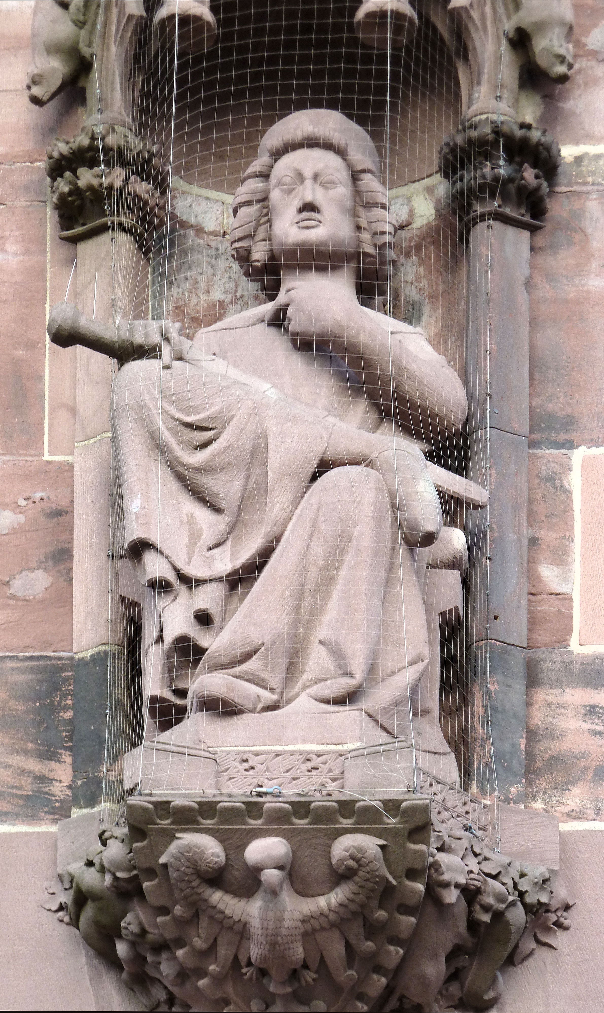 Sculture at the frontface of the Freiburger Muenster showing Konrad I., count of Freiburg with the sword of justice